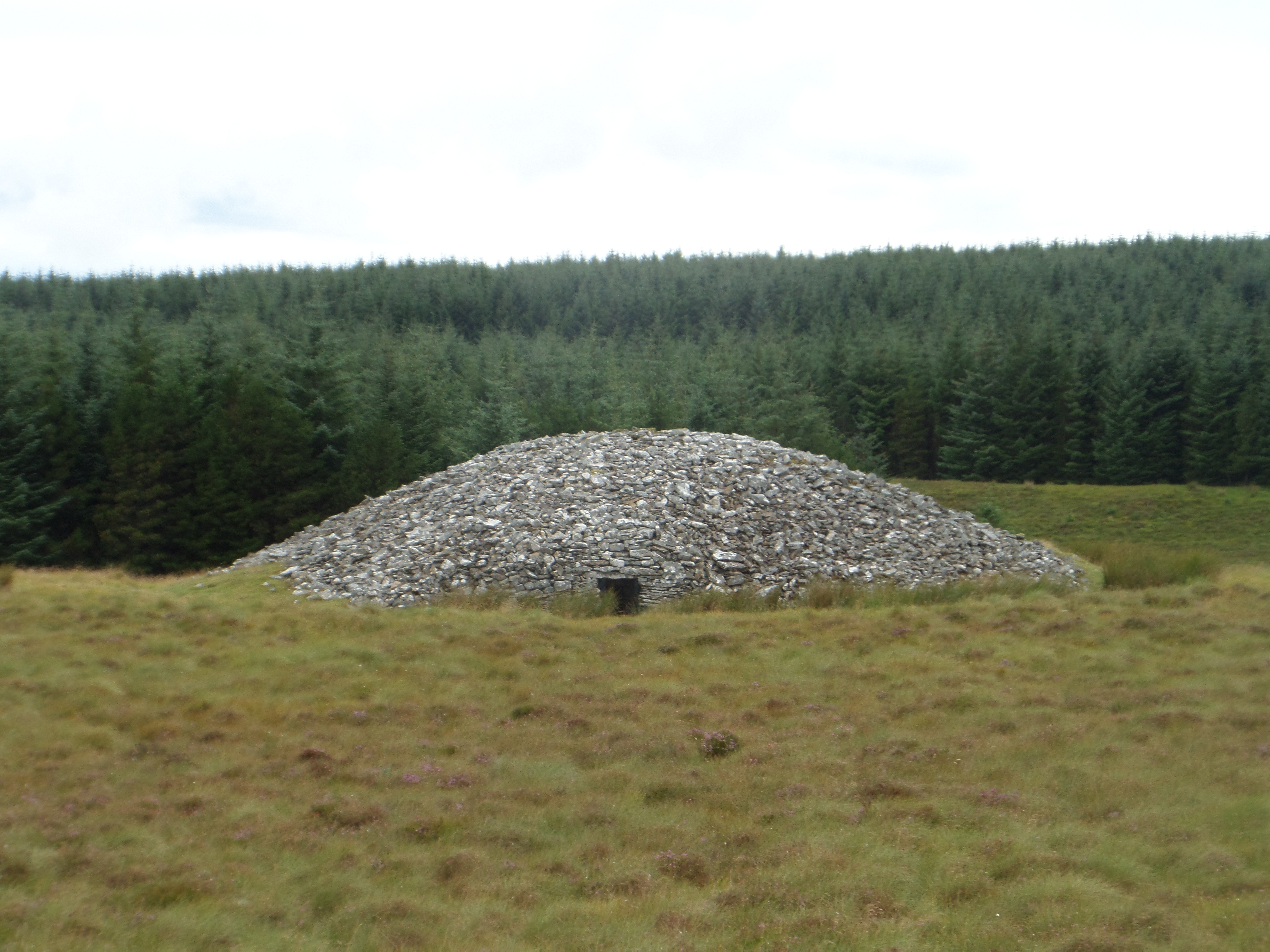 The Grey Cairns of Camster are two large Neolithic chambered cairns in the Highland region of Scotland. They date to about 5,000 years ago. The cairns demonstrate the complexity of Neolithic architecture, with central burial chambers accessed through narrow passages from the outside.